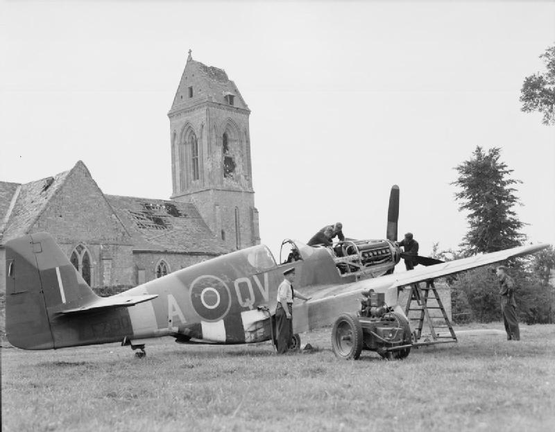 Royal Air Force- 2nd Tactical Air Force, 1943-1945. Members of a Repair and Salvage Unit attend to North American Mustang Mark III, FZ190 'QV-A', of No. 19 Squadron RAF in the shadow of the shell-torn village church at B12/Ellon, Normandy. From left to right they are: Flying Officer F H Price of Hereford, Leading Aircraftman L Polley of Boxted near Colchester, Corporal J Hughes of Crewe, Corporal N Lee of Birmingham and Sergeant W G Ward of Emsworth.